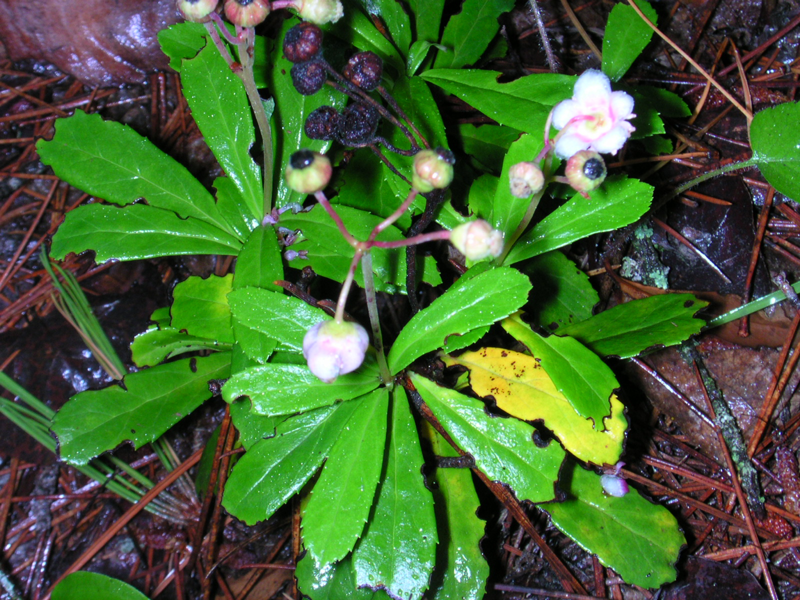 Chimaphila umbellata subsp. cisatlantica, Superior National Forest, northeastern Minnesota, USA.